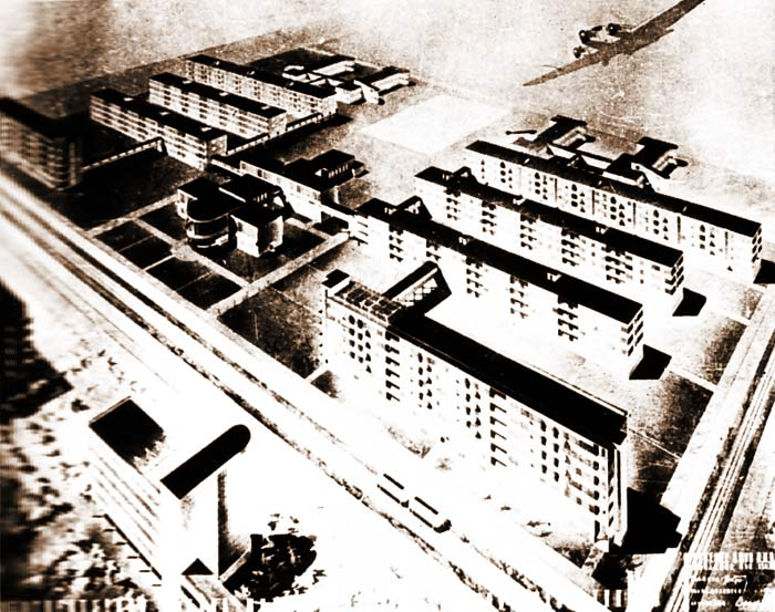 Axonometry of KhTZ Village